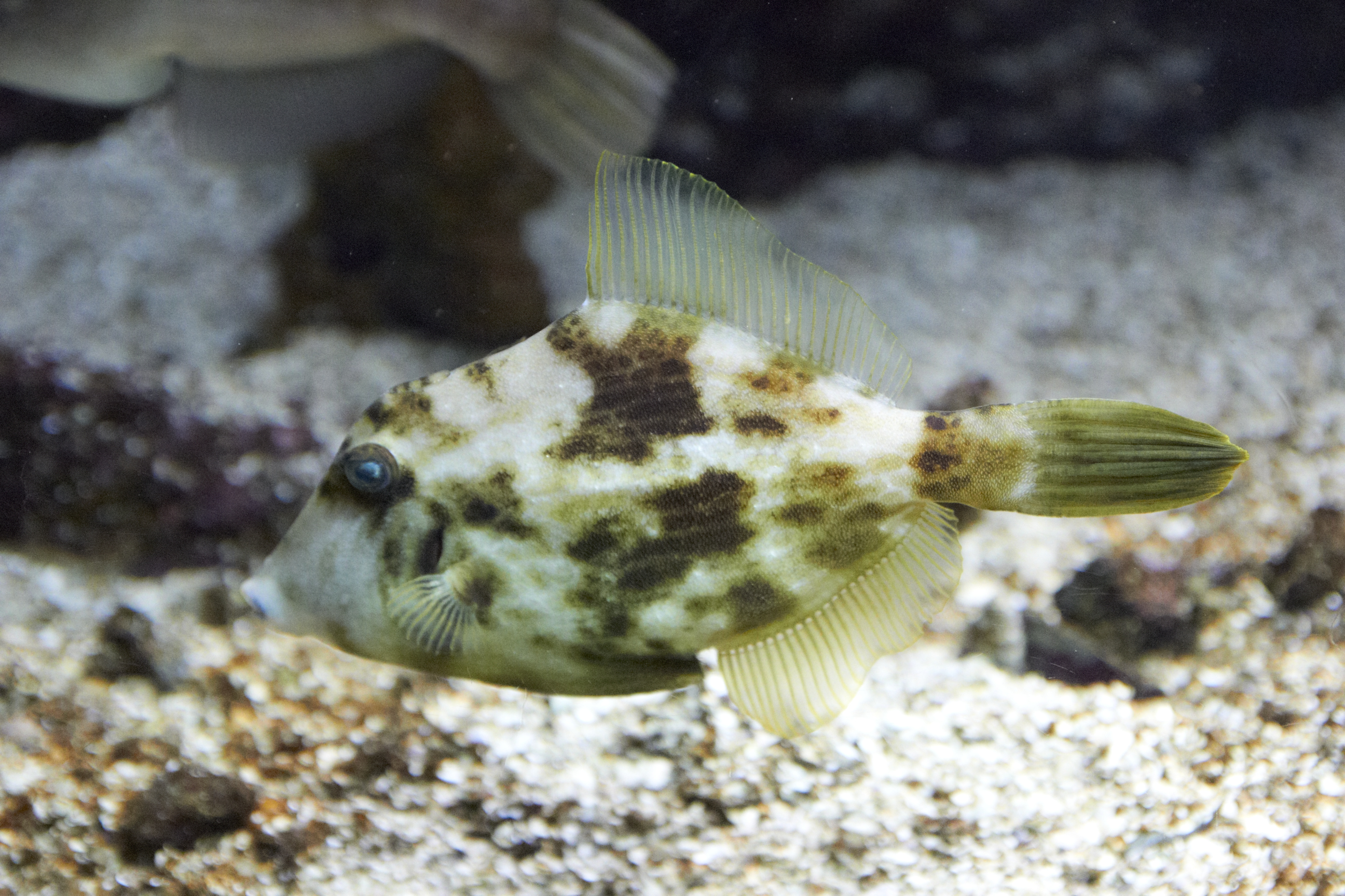 Stephanolepis diaspros